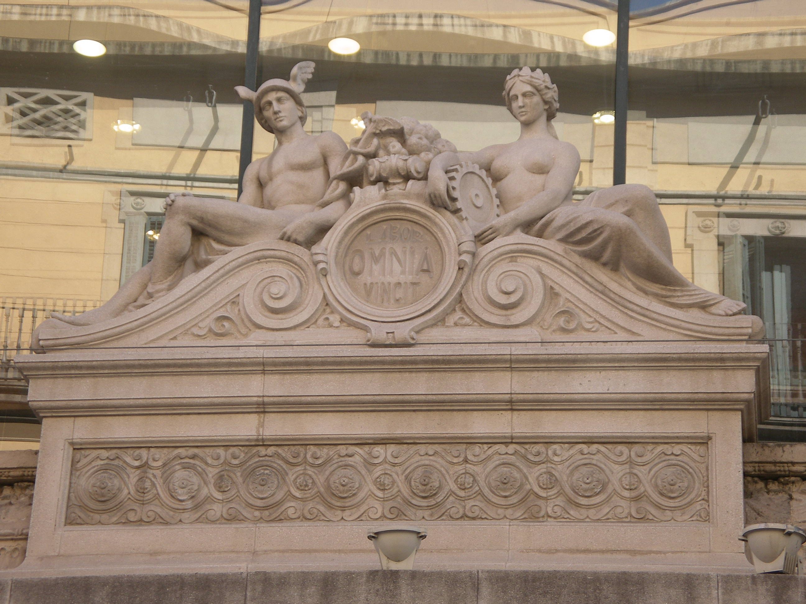 Sculpture with Latin motto "LABOR OMNIA VINCIT"